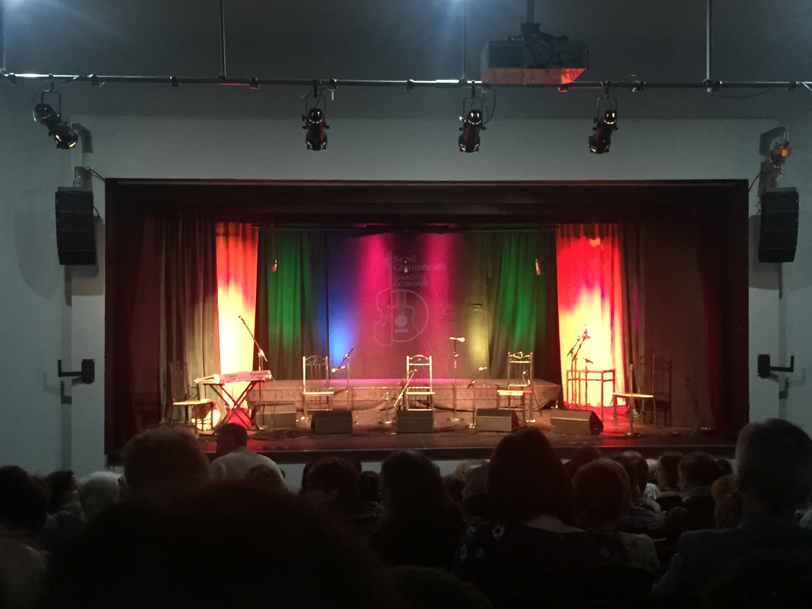 Ré peforming in Amharclann Ghaoth Dobhair